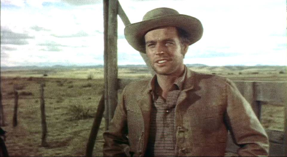 Robert Wagner in a screenshot from the trailer for the film Broken Lance.